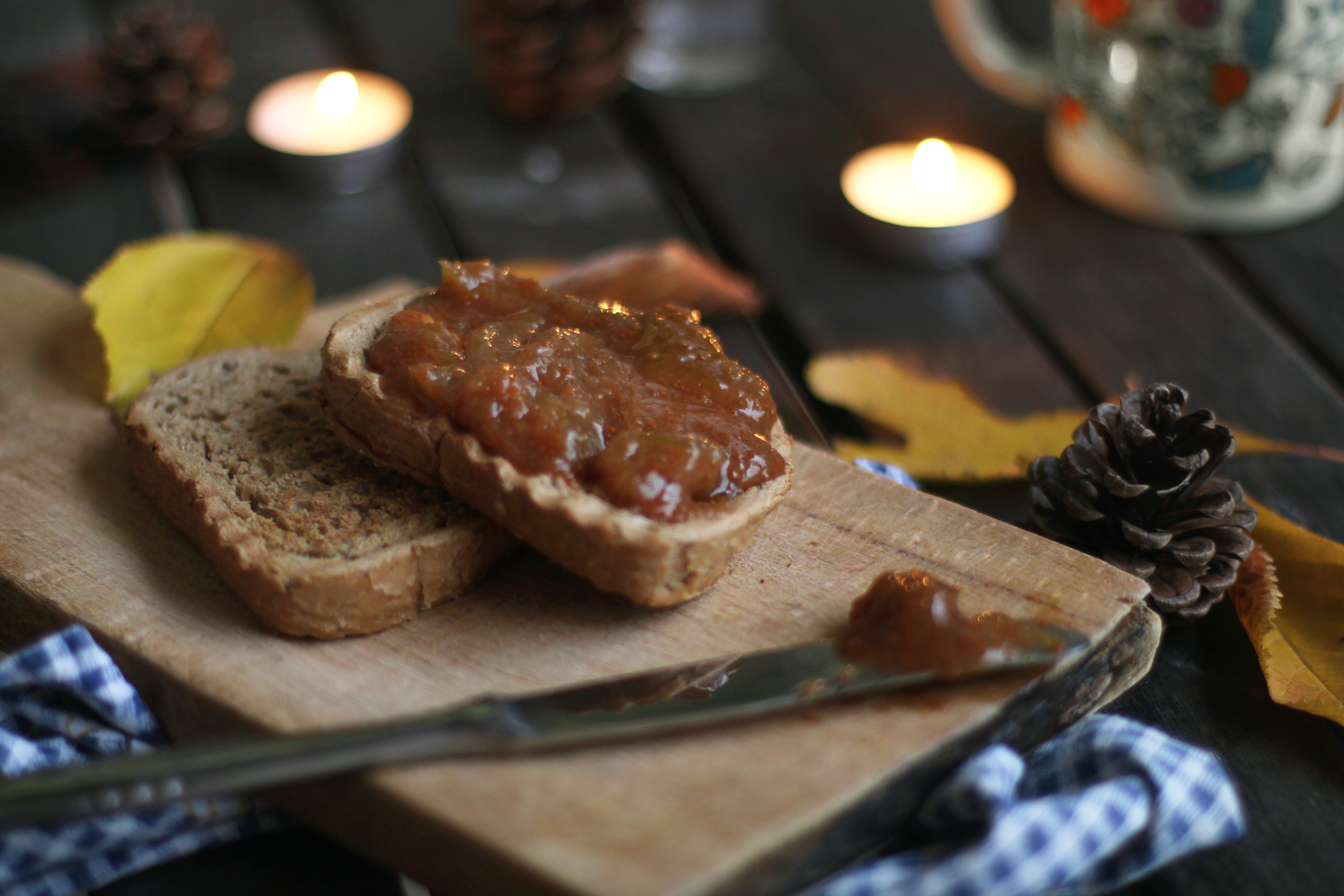 Homemade fig marmalade